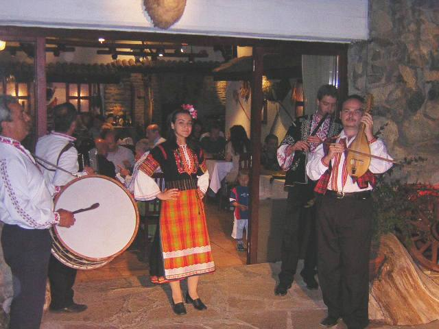 Folk music group in a Bulgarian mehana restaurant.